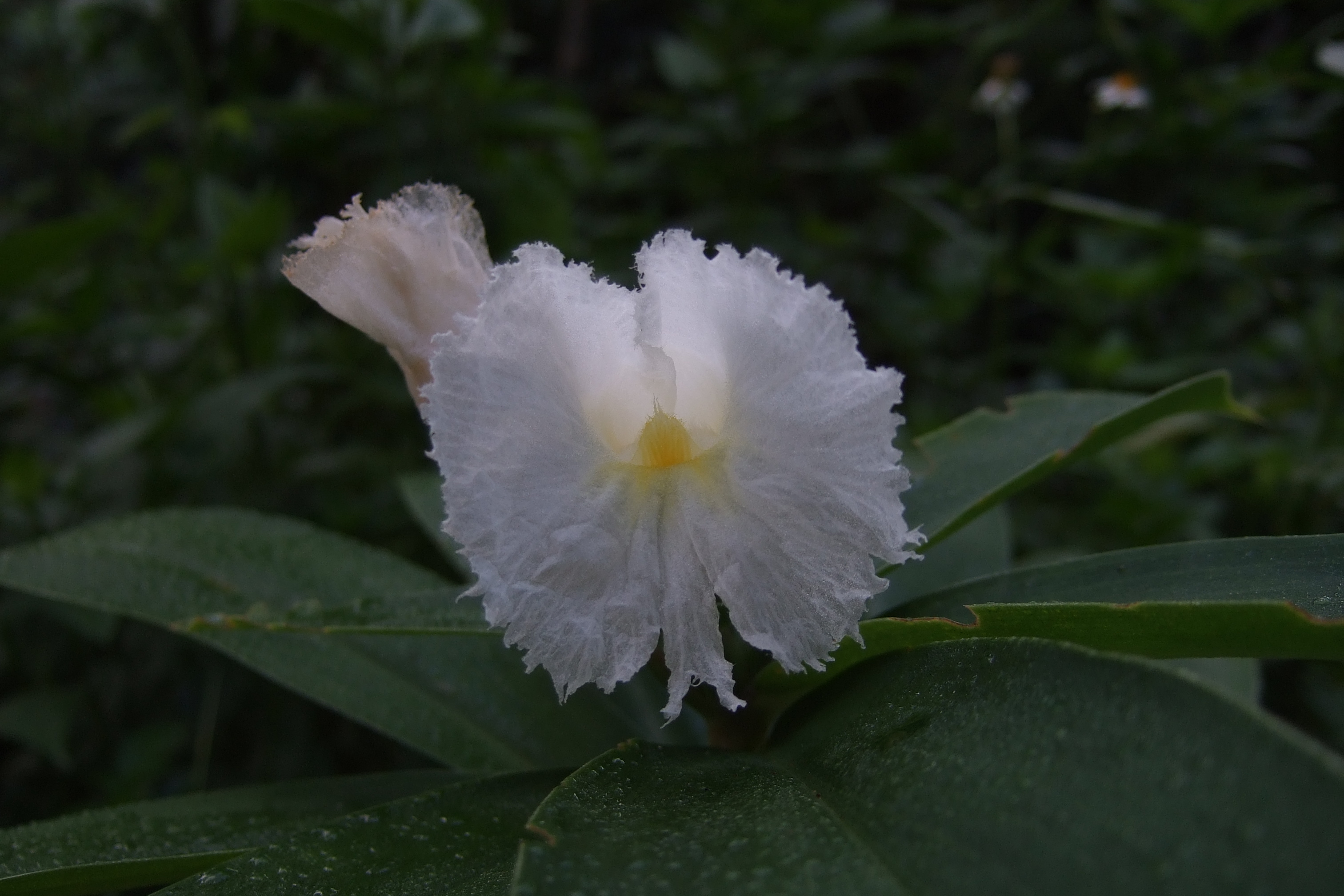 Cheilocostus speciosus, photo taken in Taiwan